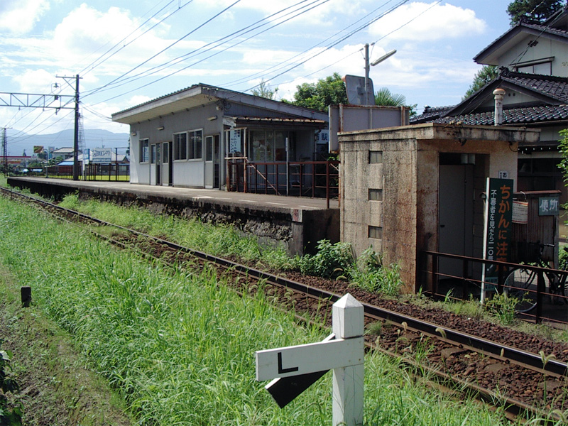 Nunoichi Station on the Toyama Chiho Railway Kamidaki Line in the city of Toyama, Toyama Prefecture, Japan